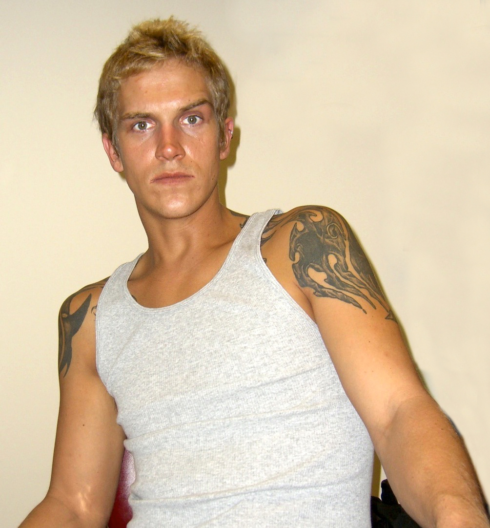 Actor Jason Mewes at the Big Apple Convention, June 8, 2008 Photographed by Luigi Novi. This photo is not in the public domain. It may, however, be used, modified and published for any purpose, free of charge, only if the photographer is properly credited, either by linking the photograph to this page, or with an easily visible credit to the photographer placed near the photo in each instance in which it is used. (See licensing information below.) Publication of this photo without this proper attribution constitutes copyright infringement. If you have any questions, you can contact me on my Wikipedia Talk Page.